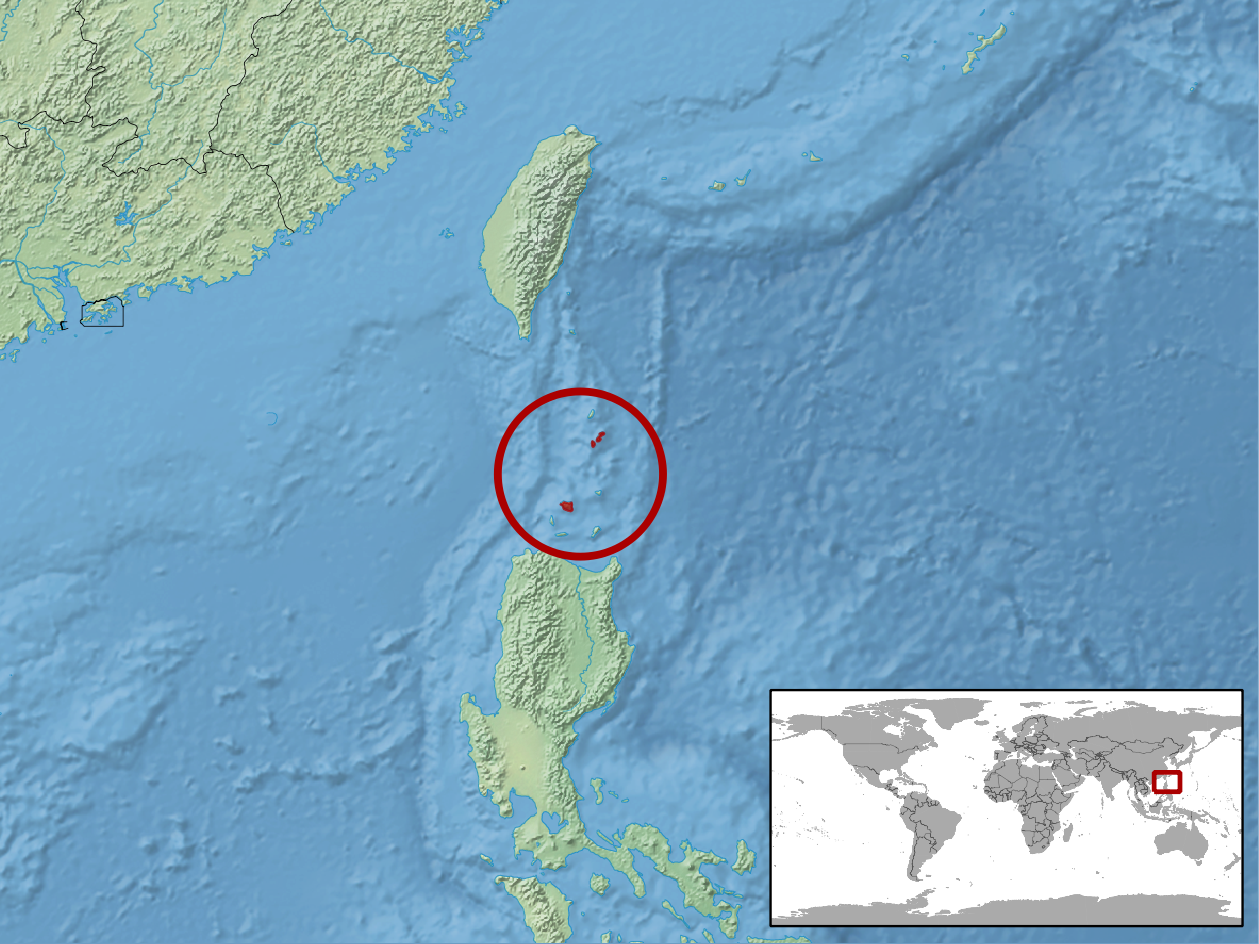 geographic distribution of Trimeresurus mcgregori (Native: Philippines)